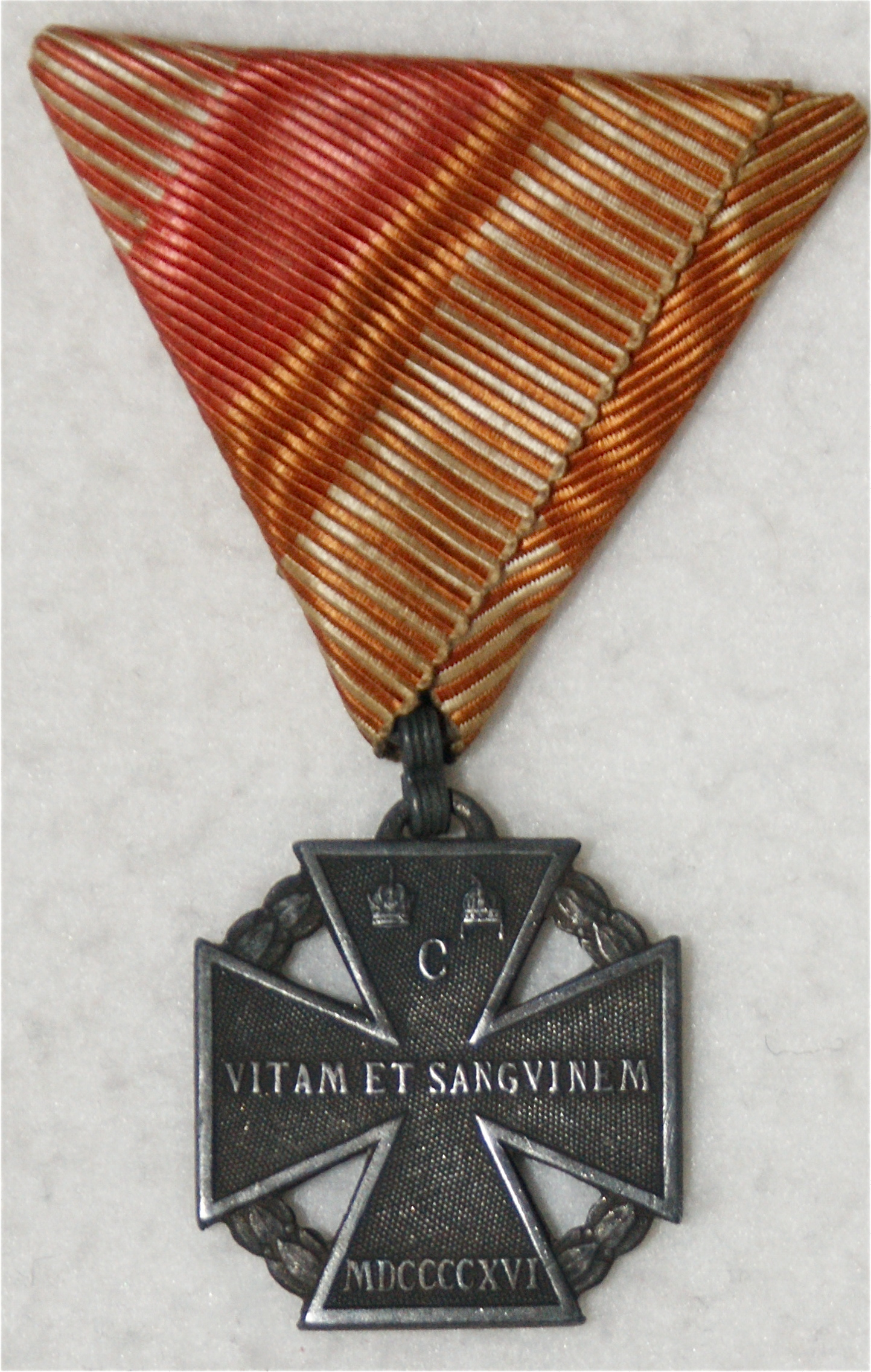 Charles' Cross for the Troops 1916, front